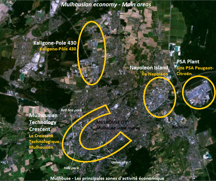 mulhousian main economical areas